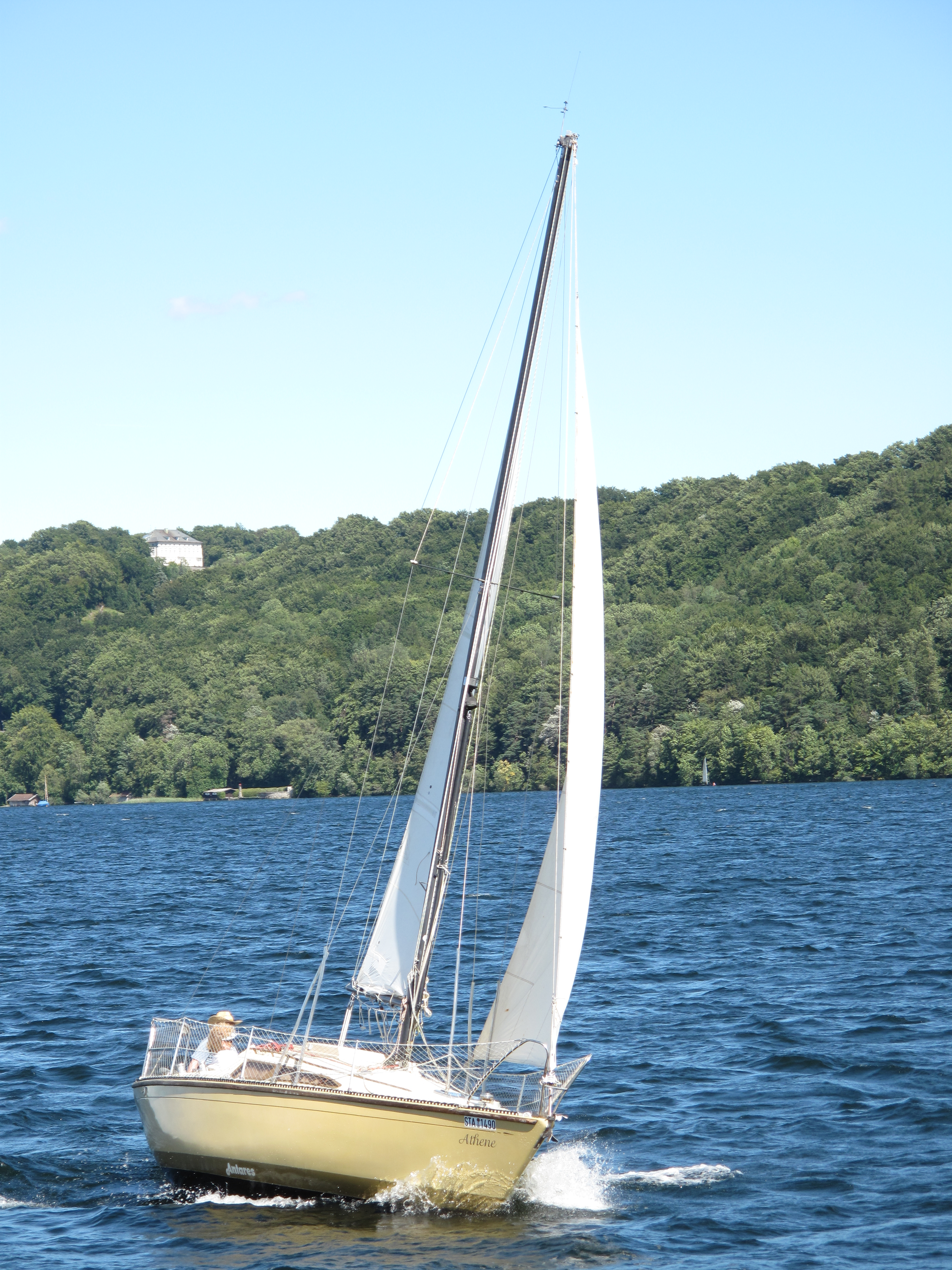 Sailboat on the Lake Starnberg, Bavaria, Germany.